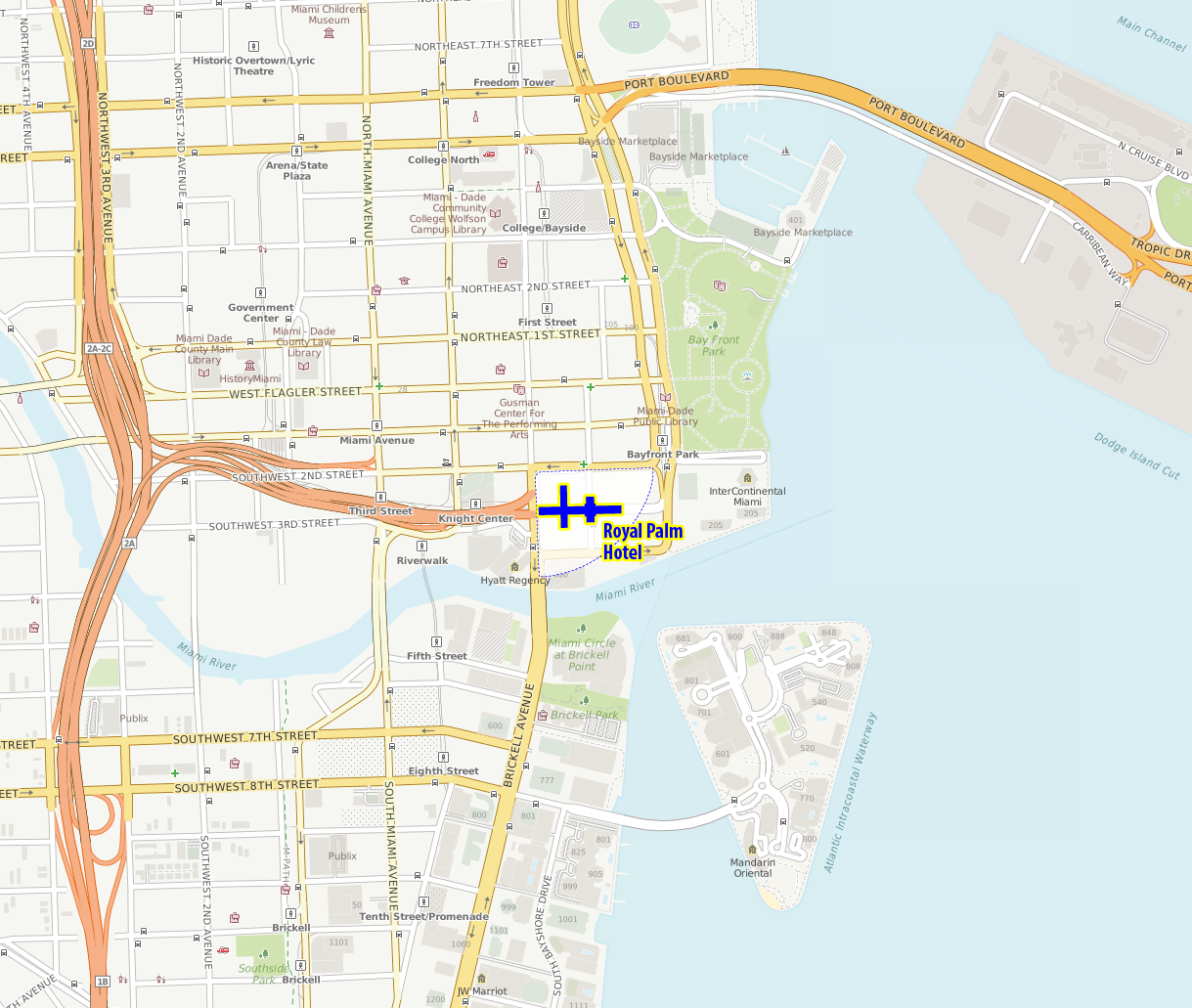 Location map of the Royal Palm Hotel in Miami